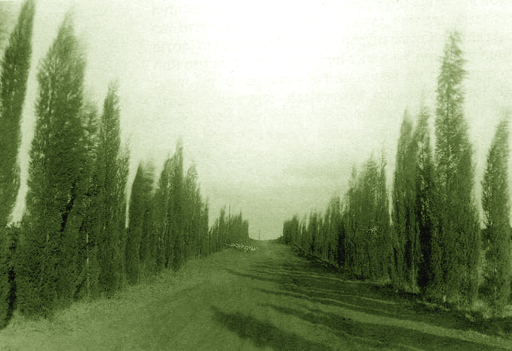 Kfar Hdar in Israel